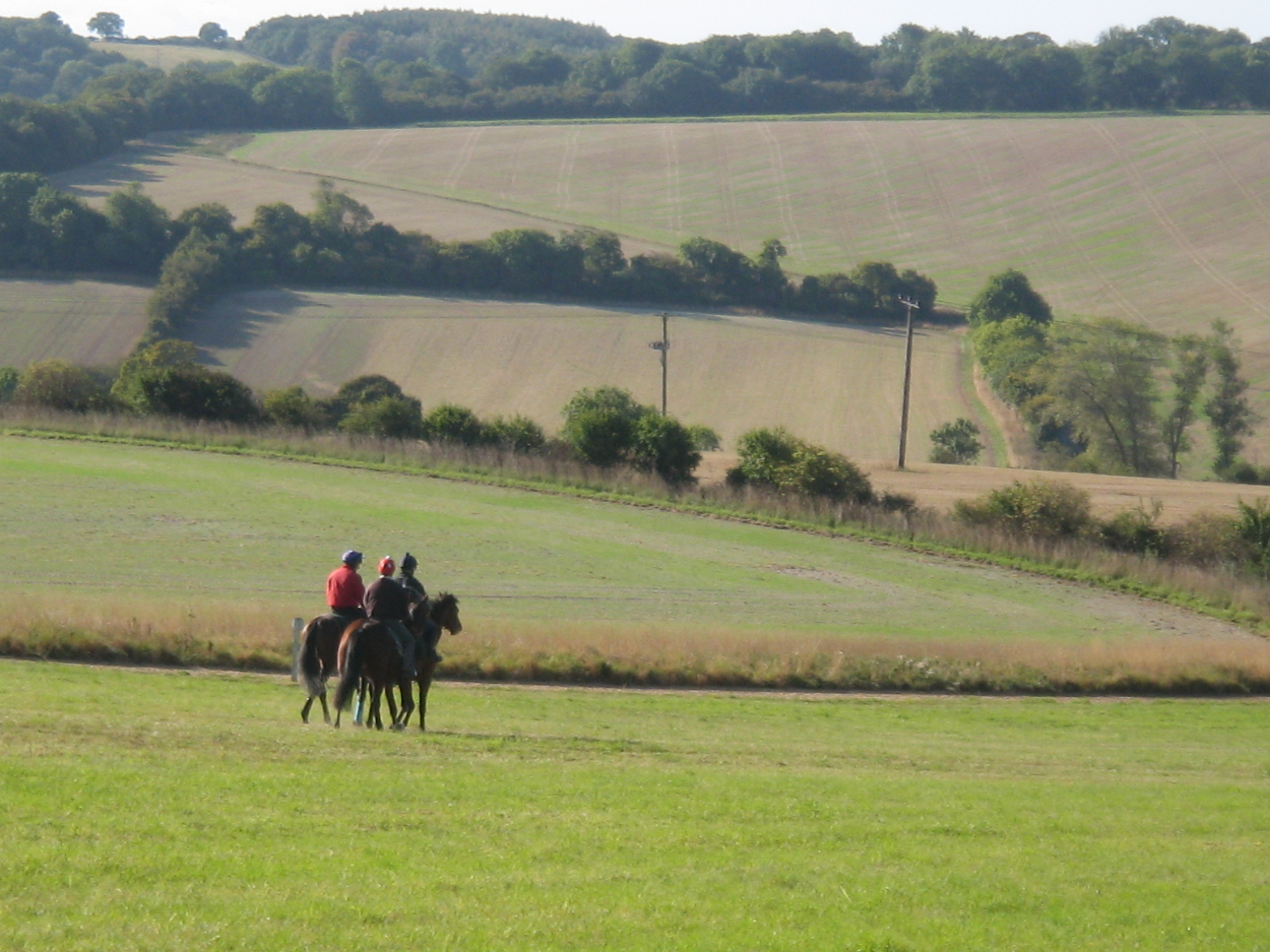 Jockeys training racehorses on the gallops, Valley of the Racehorse, Lambourn, Berkshire